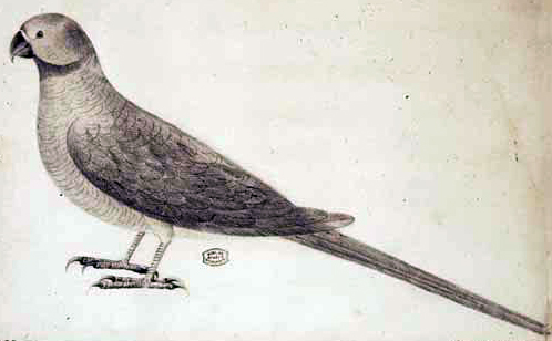 One of only two known depictions of living Psittacula exsul, the other was also produced by Jossigny